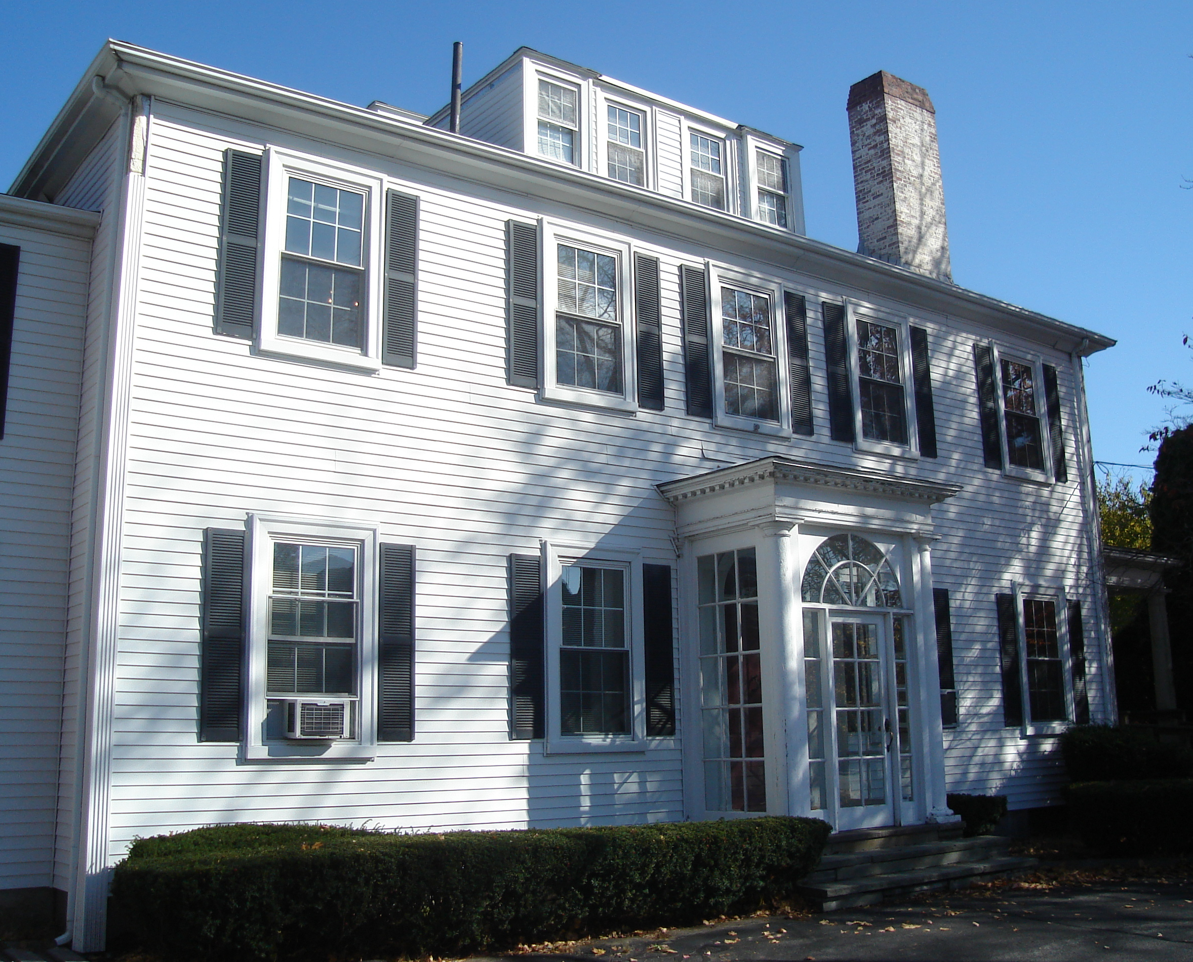 Edward Miller House in Quincy, Massachusetts, built in 1830 and added to the National Register of Historic Places in 1990. External link